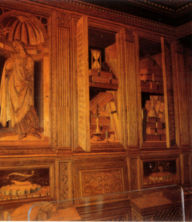 Mosaic woodwork, Studiolo